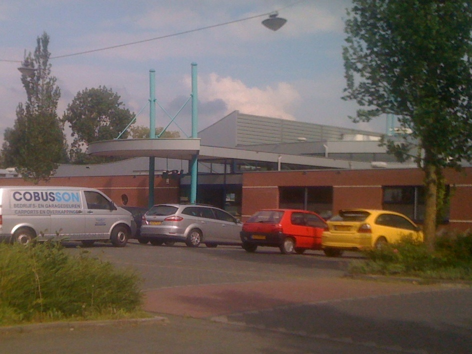 Entrance of It Rak swimmingpool in Sneek.